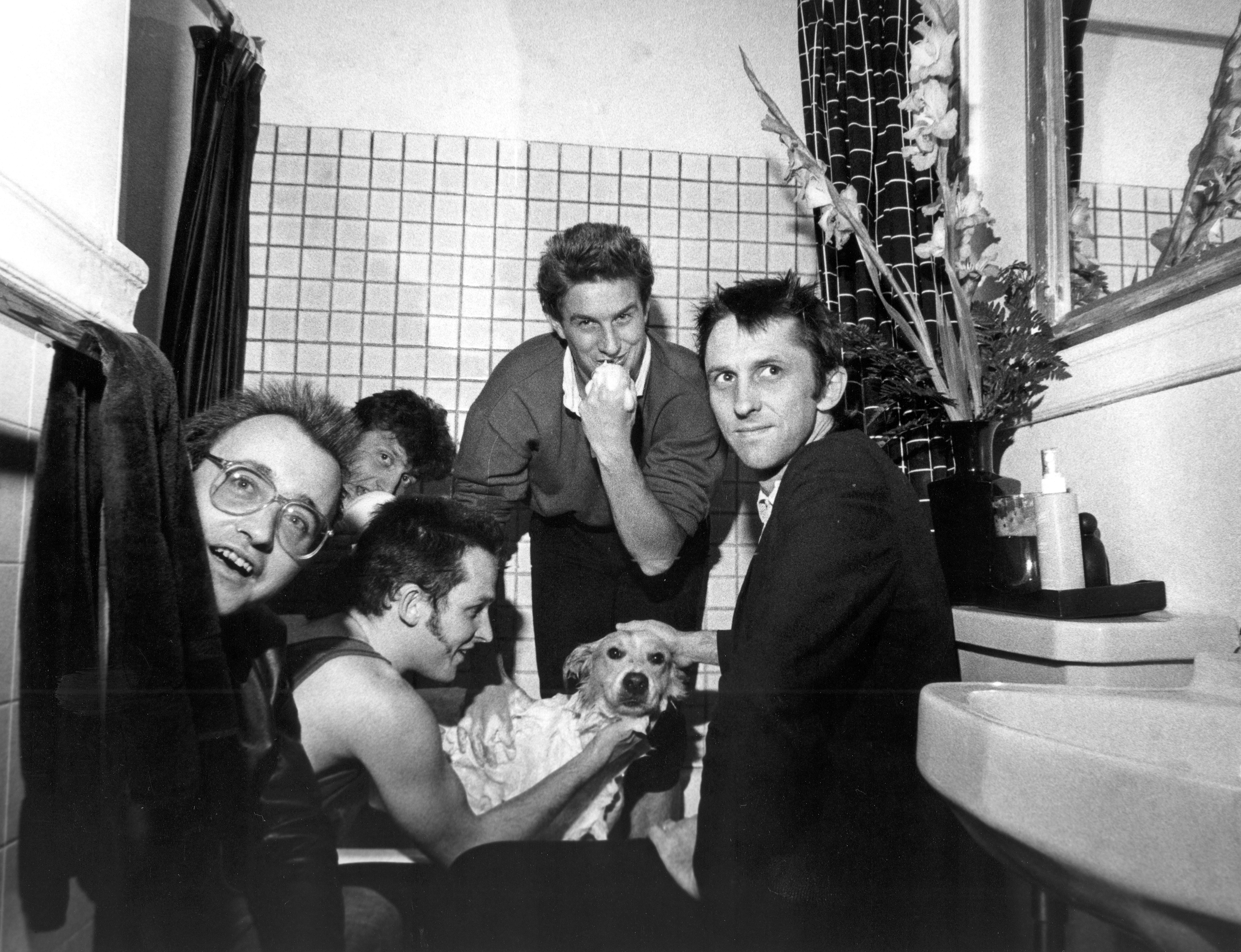 Australian band Mental as Anything does household chores for a San Francisco woman as a publicity stunt.